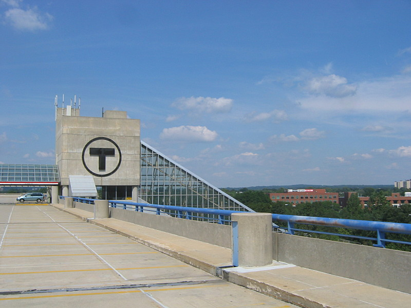 View of Alewife station from the top of the parking garage. The enormous T logo is visible from as far away as Harvard Square from tall buildings.)